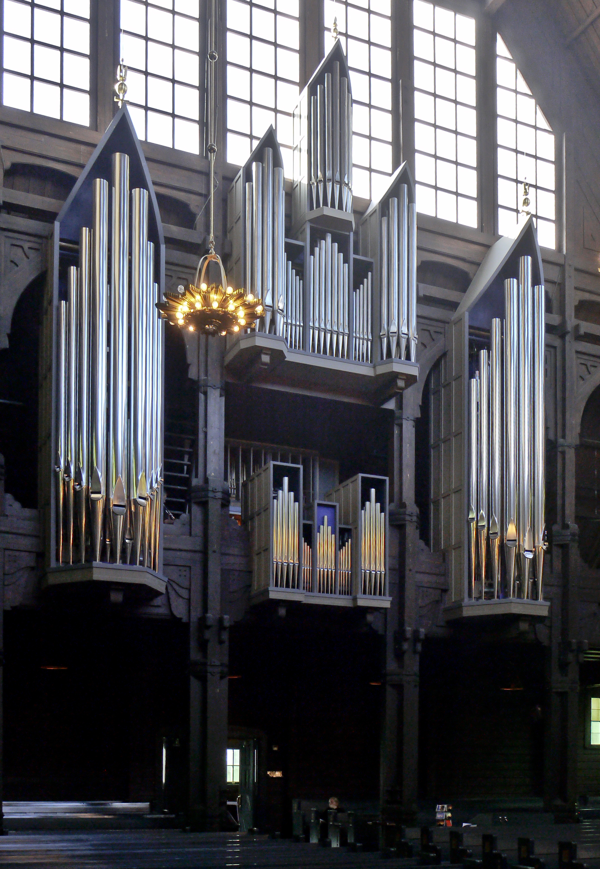 Kiruna kyrka/church, Diocese of Luleå, Kiruna, Sweden. Church organ.